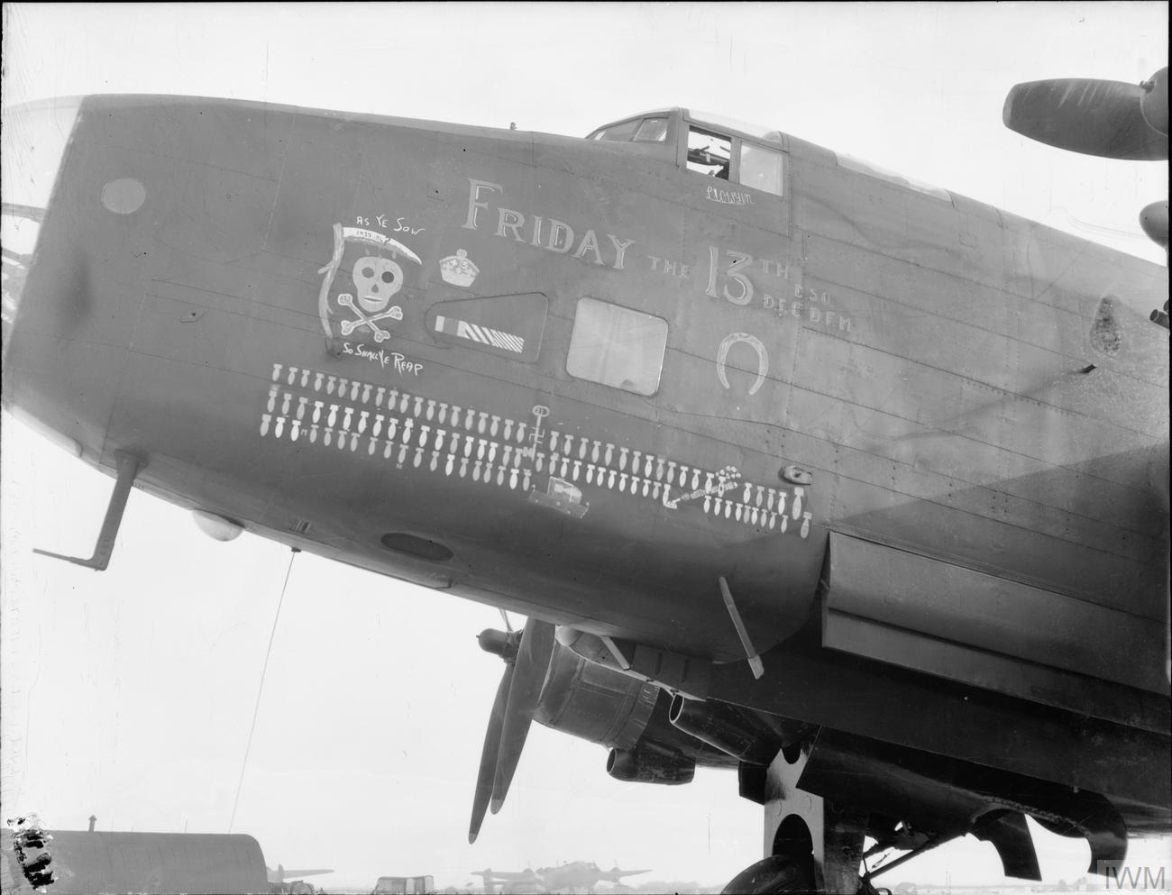 IWM caption : Nose insignia on Handley Page Halifax B Mark III, LV907 'NP-F' "Friday the Thirteenth", of No. 158 Squadron RAF, after returning to Lissett, Yorkshire, from its 100th operational sortie, a night raid on Gelsenkirchen, Germany, flown by Flight Lieutenant N G Gordon and crew. LV907 was so named because it was delivered to the Squadron on 13 January 1944, and was accordingly painted with depictions of various unlucky omens. However, it completed 128 successful sorties before being struck off charge in May 1945.